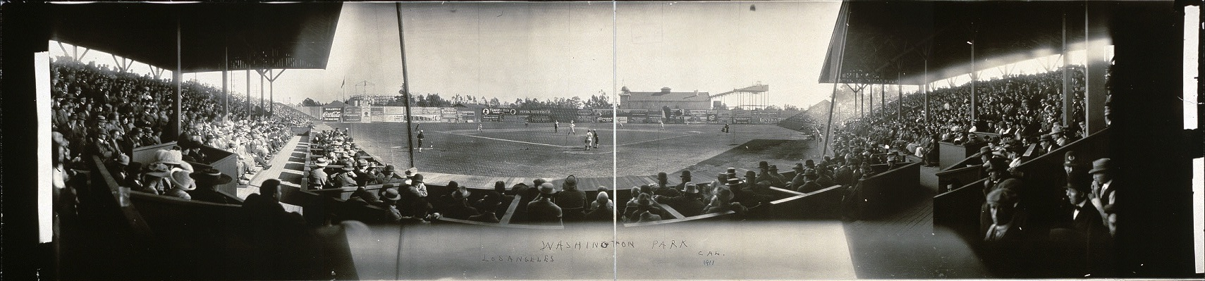 Washington Park in Los Angeles, California, circa 1911. Cropped out border from original image from the Library of Congress.